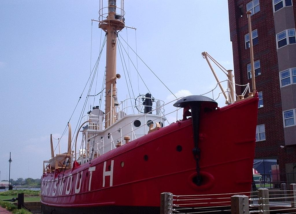 Photo by William J. Grimes